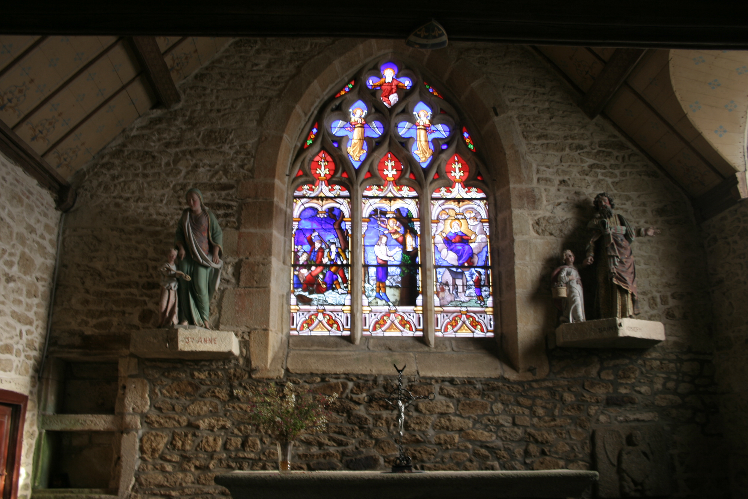 Polychromatic sculptures in Notre Dame de Haut near Trédaniel